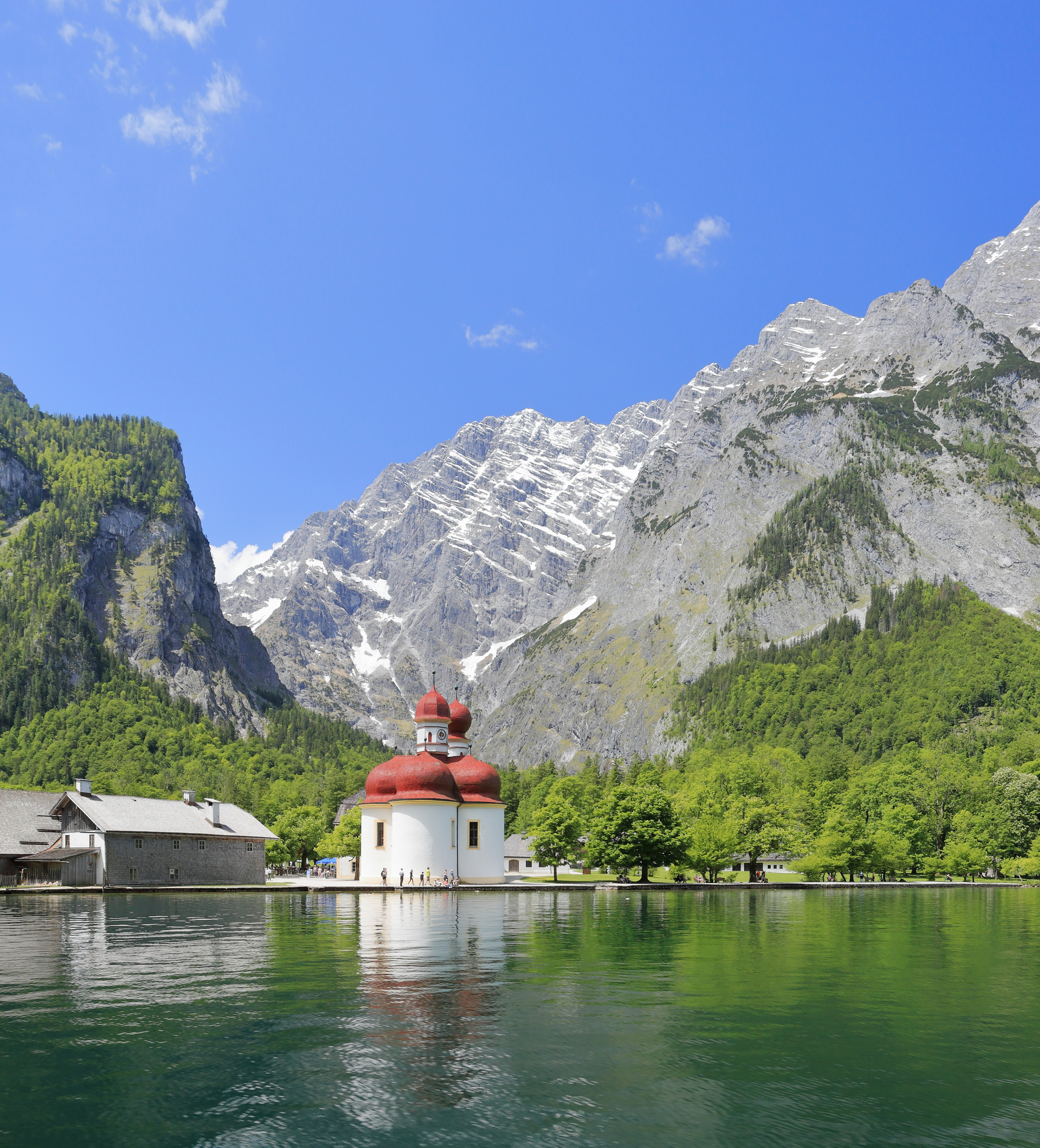 St. Bartholomew's Church (St. Bartholomä), Königssee, and the East Face of Mount Watzmann, Bavaria - part of Berchtesgaden National Park